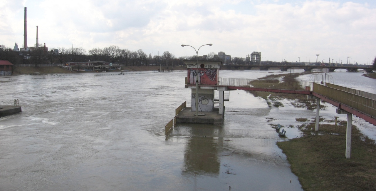 Wrocław, Poland: foreground - Różanka Weir on the Odra River, view from Trzebnicki Bridge background - Osobowicki Bridge High water, spring 2006